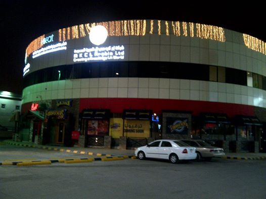 MKCL Office in Riyadh